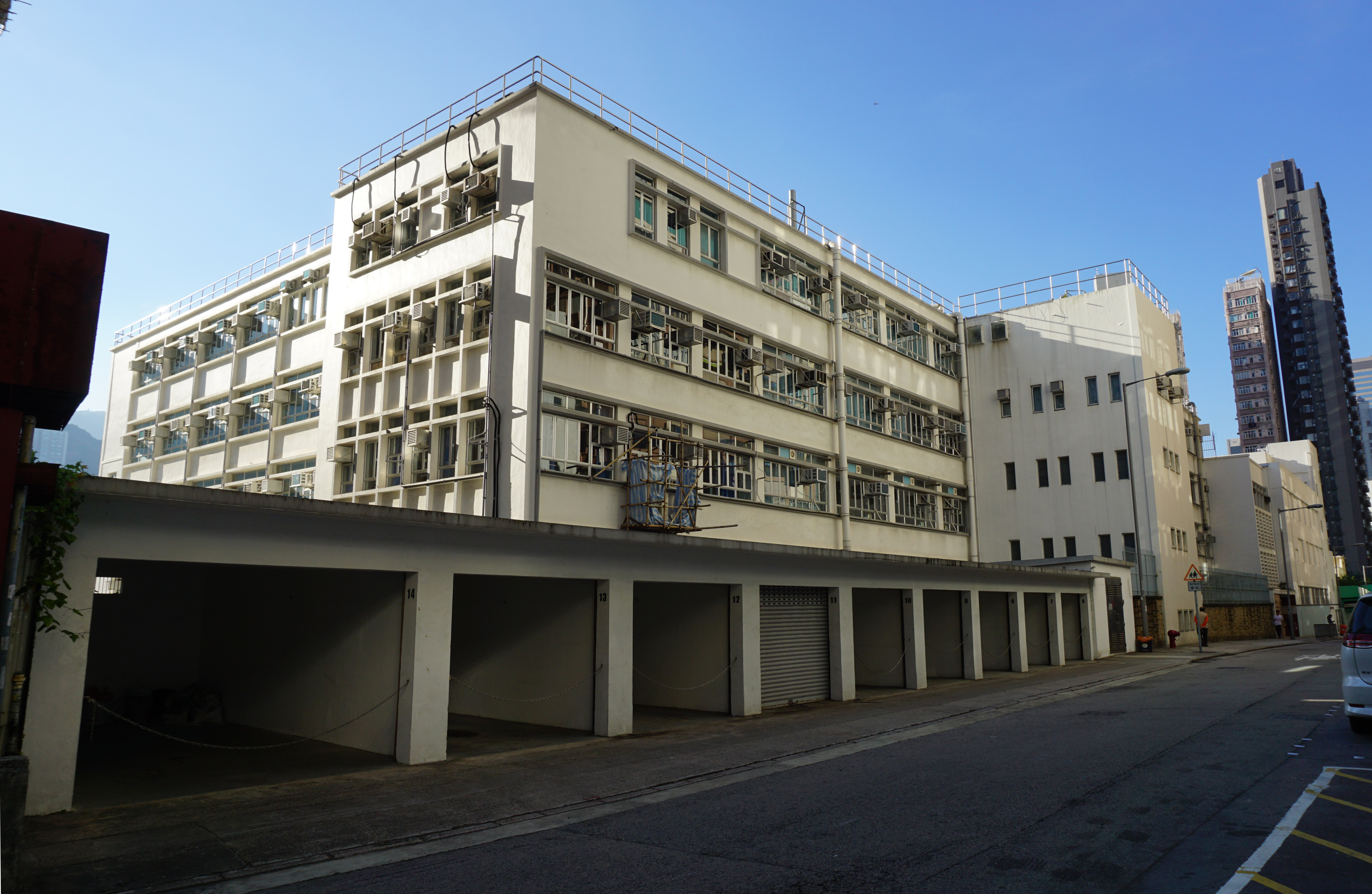 St. Paul's Secondary School in Happy Valley, Hong Kong.